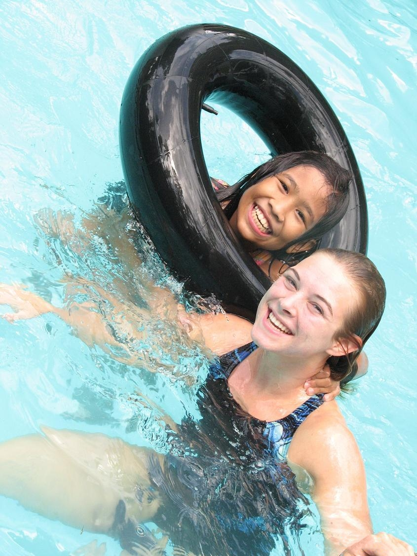 Two young girls having fun in swimming lessons.